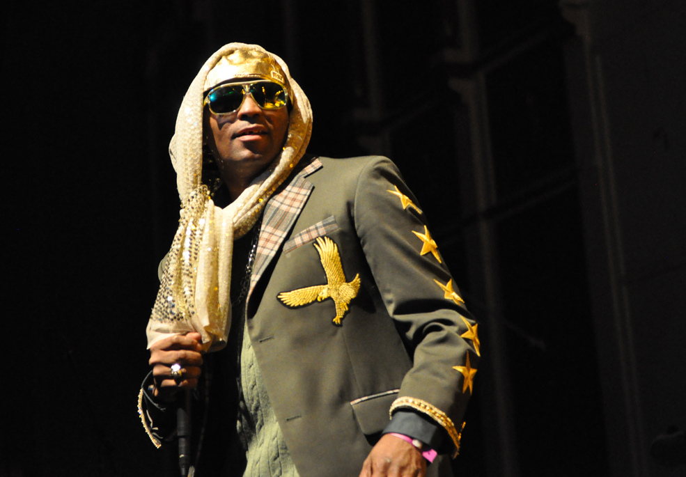 Kool Keith, 2011